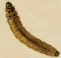 Stainton’s Natural History of the Tineina (1855–1873): Coleophora genistae